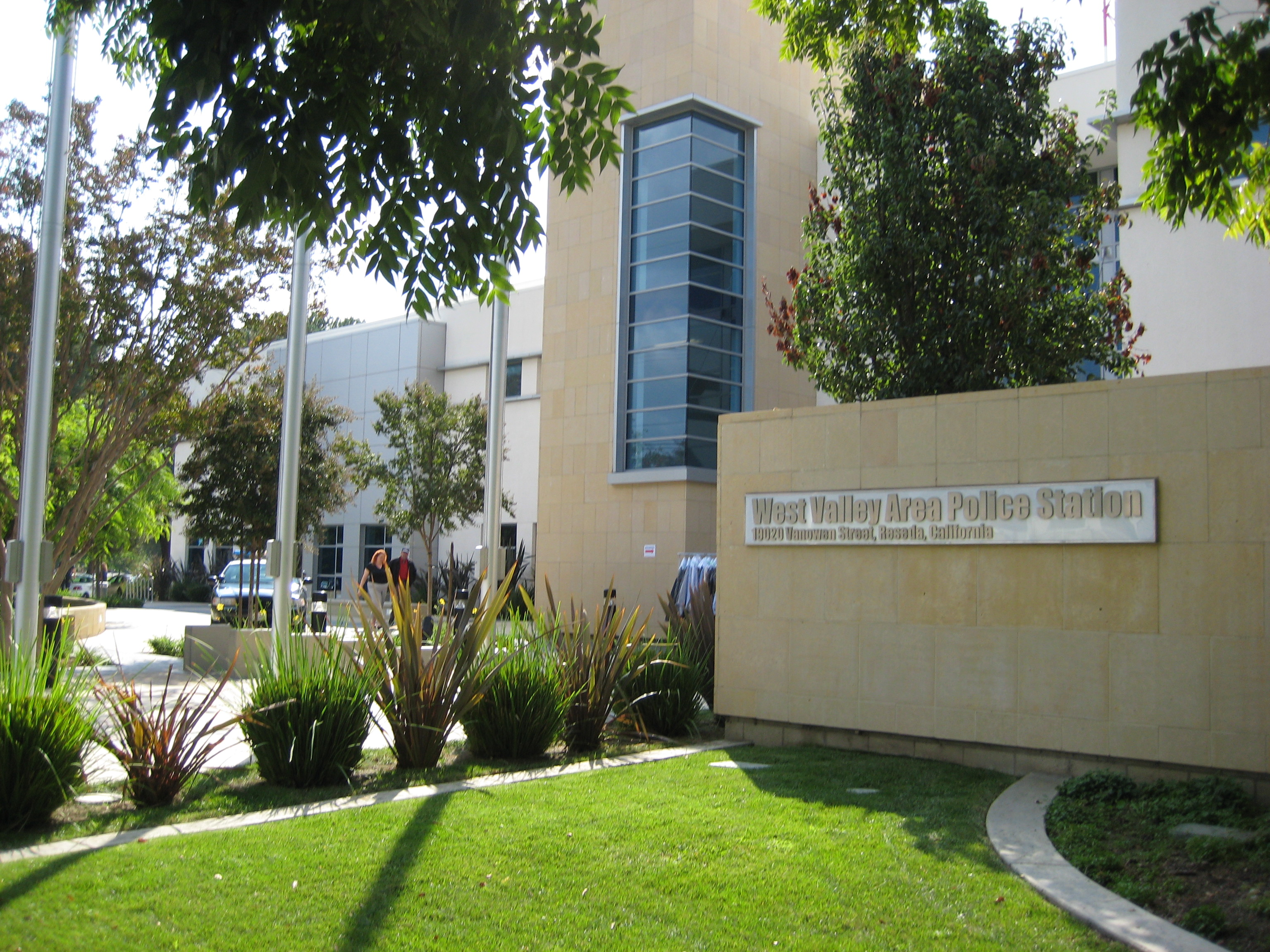 The front of the LAPD West Valley Station in Reseda — located in the western San Fernando Valley, Los Angeles, California.